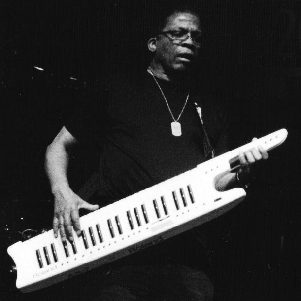 a picture from Herbie Hancock